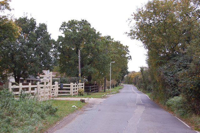 Part of Dunton Wayletts